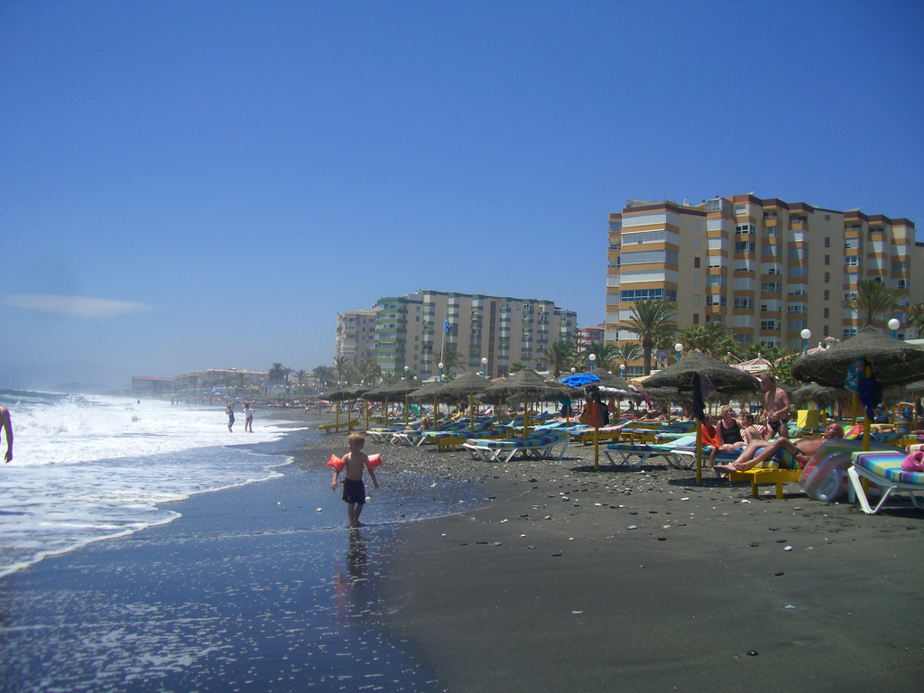 Beach in Torrox Costa, Spain.